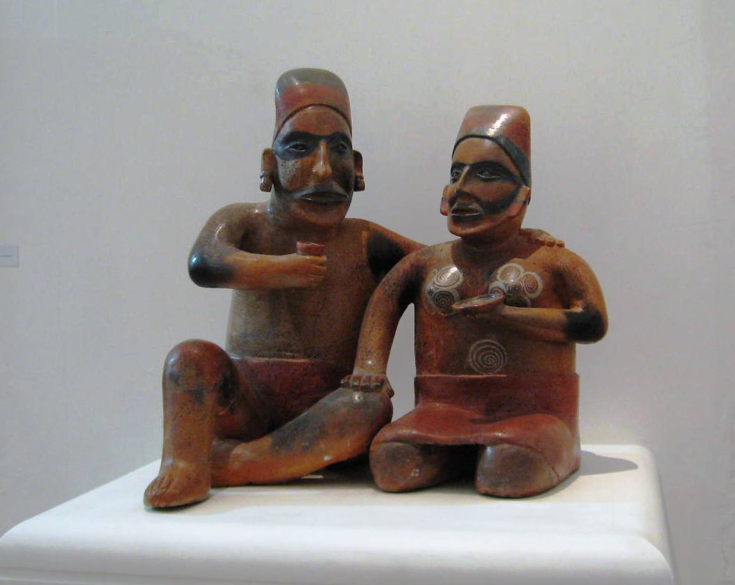 Pre hispanic statue of two men drinking mezcal (tequila is a type of mezcal) in the National Museum of Tequila